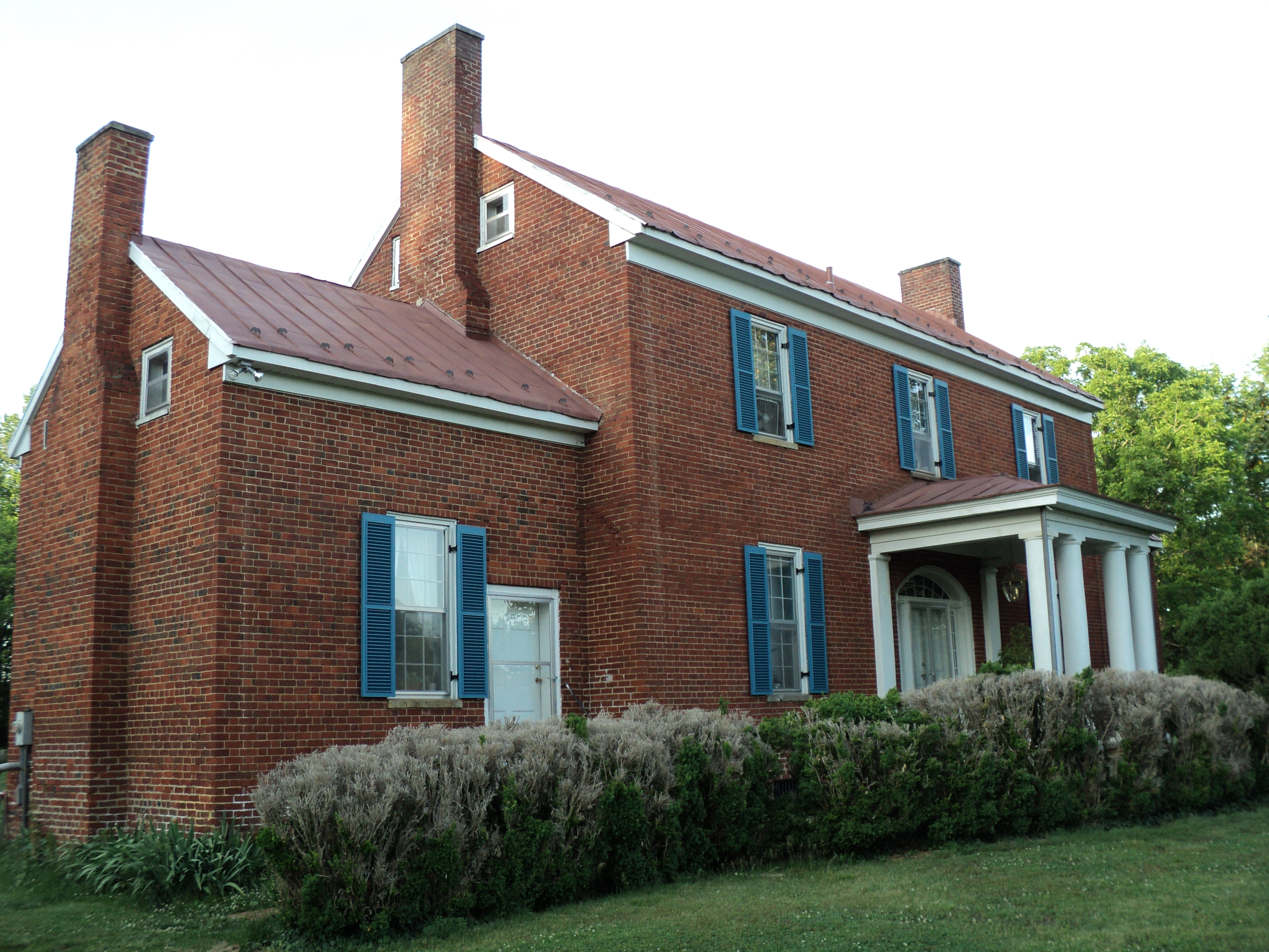 Hordsville, a plantation house of the Hairston family, was built circa 1836 near Fieldale, Henry County, Virginia. The house takes its name from the first owner of the land, Col. Mordecai Hord, Revolutionary War officer, planter and Virginia pioneer.[1]